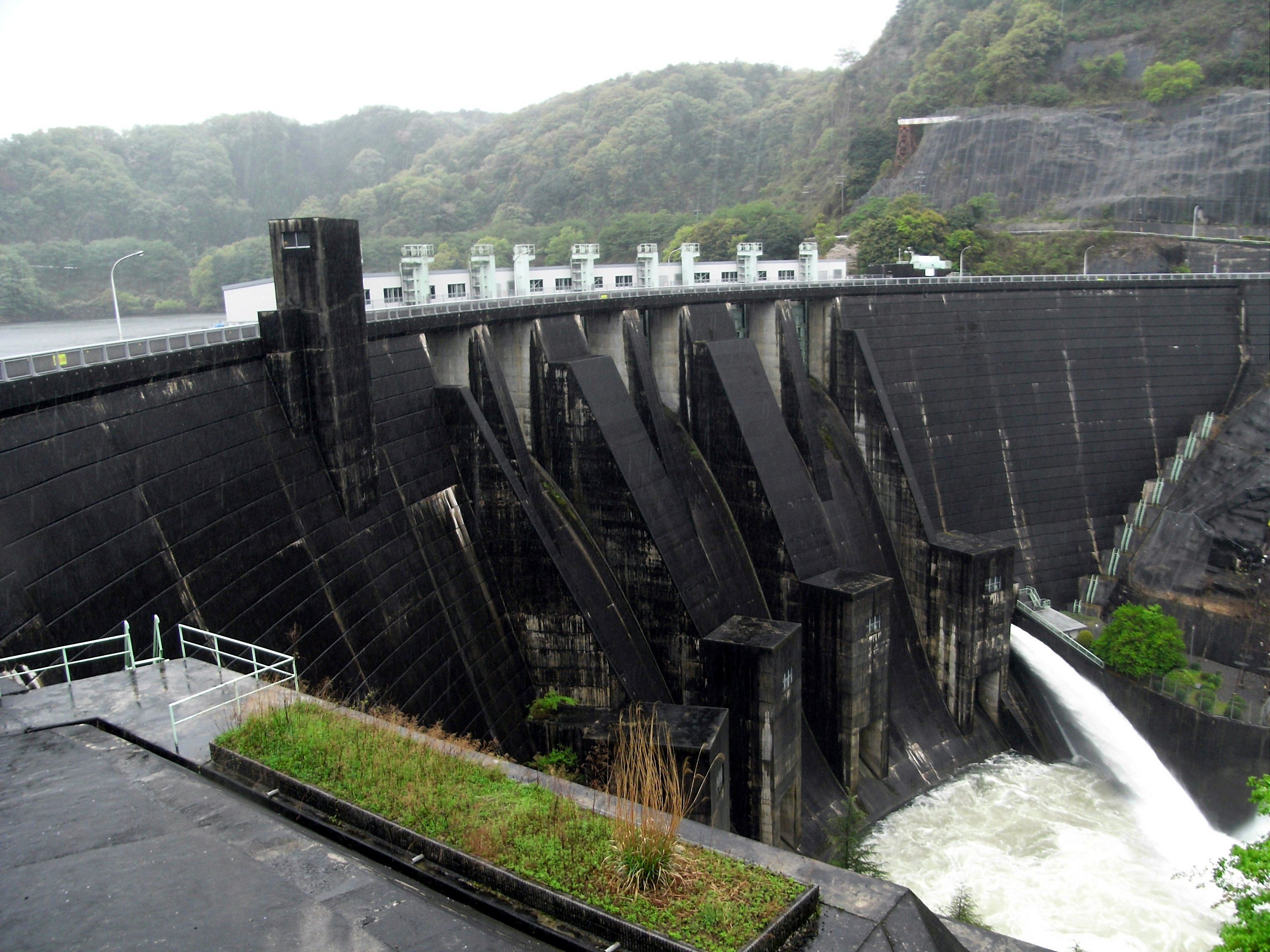 Takayama Dam(Nabarigawa river/Kyoto Pref./Japan)